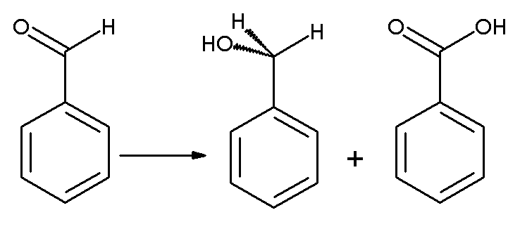 I created the picture myself and converted it to png